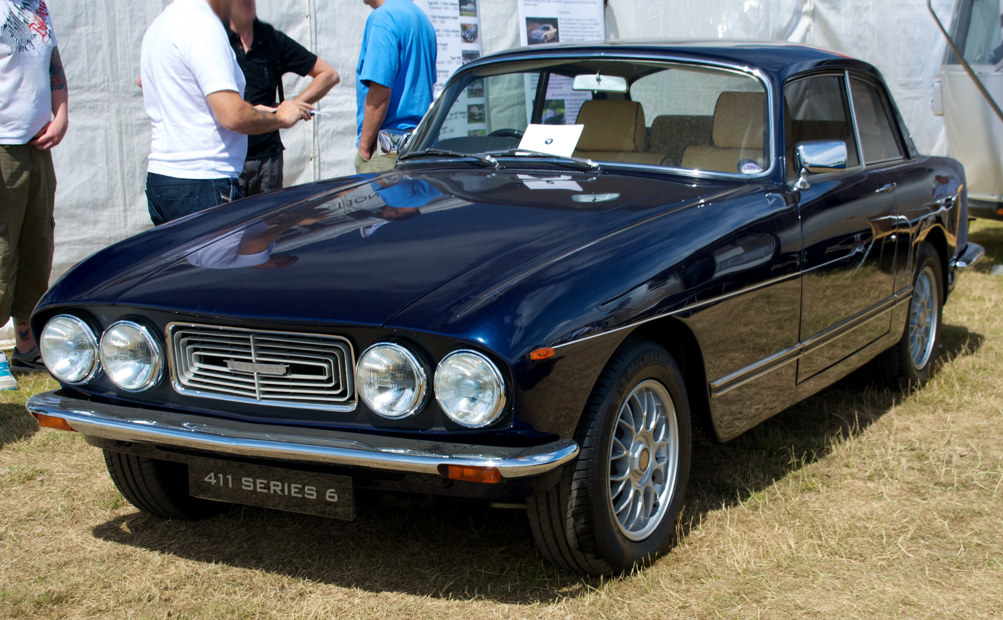 Bristol 411 Series 6 (modenized version of the old 411) at the 2010 Festival Of Speed, Goodwood.